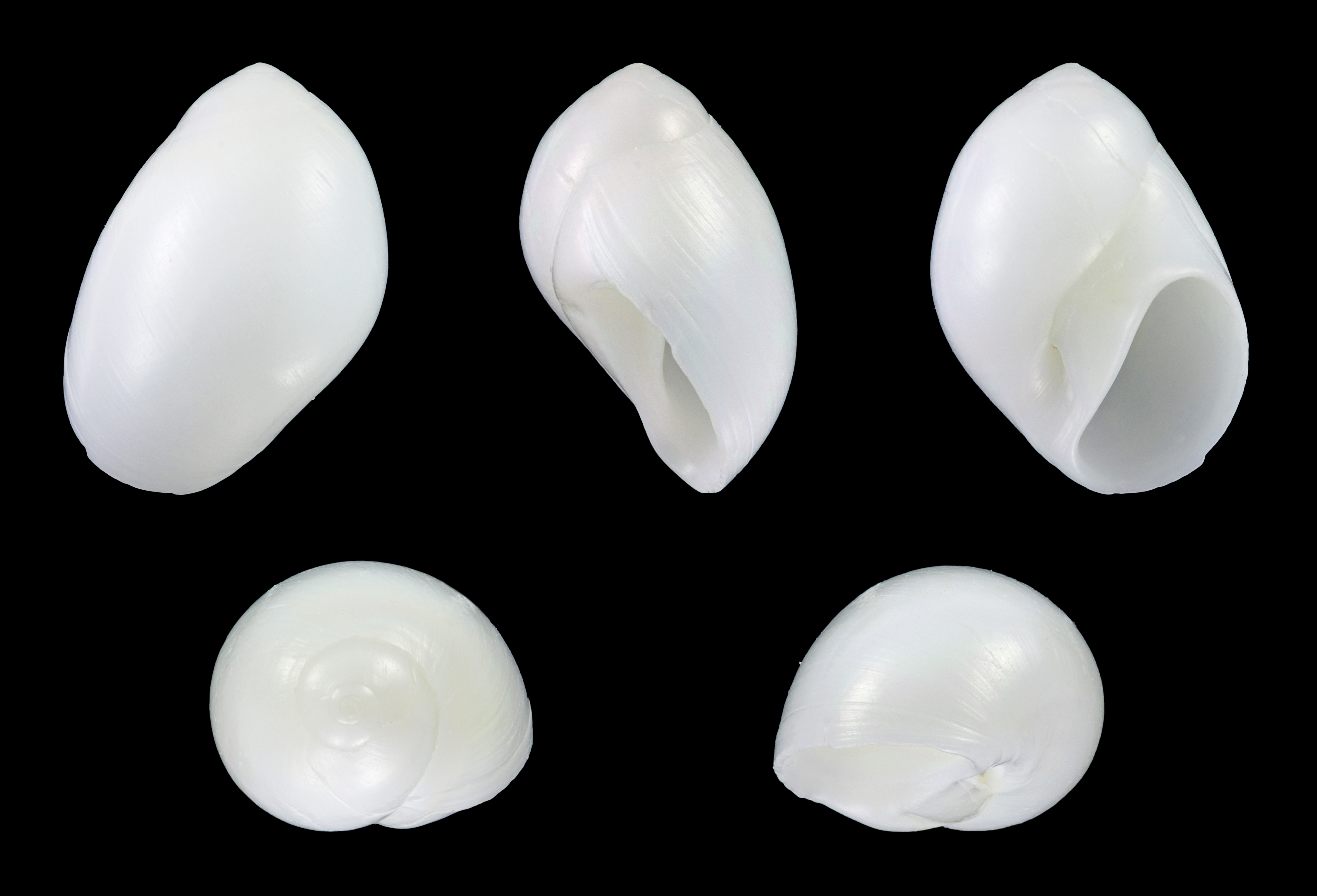 Caribbean Milk Moon Snail; Height 1.3 cm; Originating from Florida, USA; Shell of own collection, therefore not geocoded. Dorsal, lateral (right side), ventral, back, and front view.